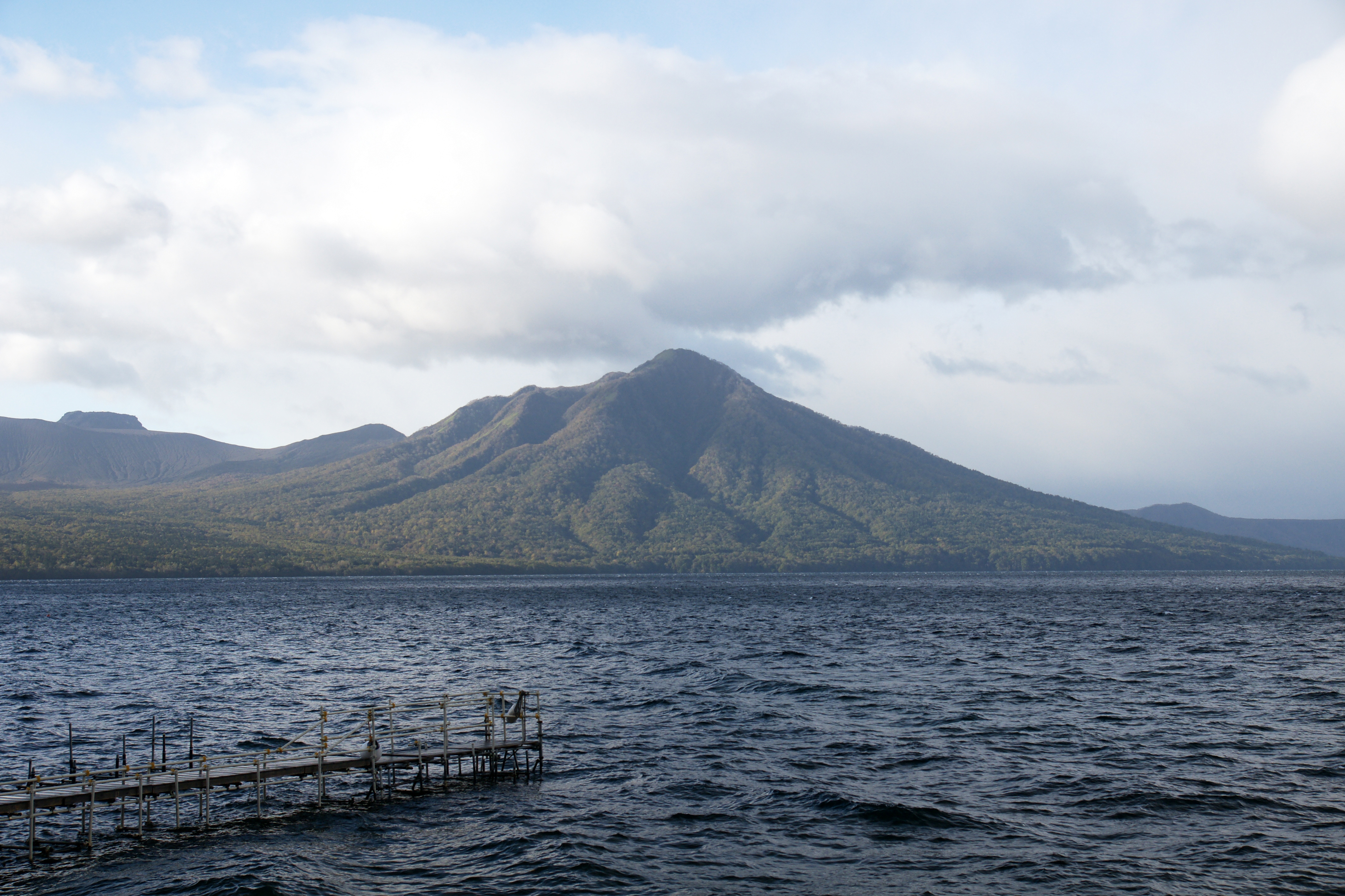 Mt. Fuppushi-dake view from Lake Shikotsu, Chitose, Hokkaido prefecture, Japan